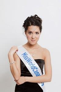 Tara Teng wearing her Miss World Canada sash and modelling jewelry from Sweetpiece Jewelry